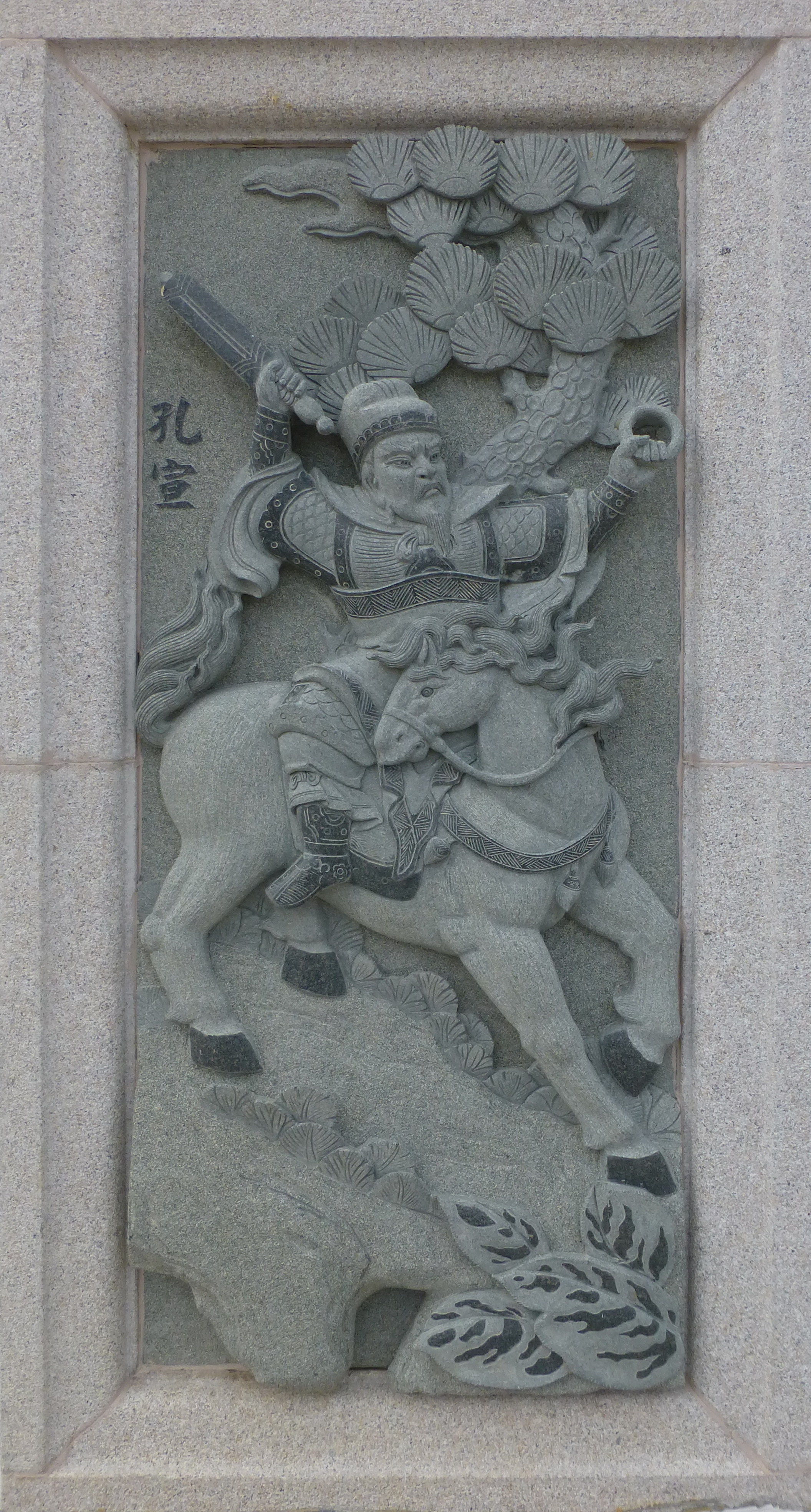 040 Kong xuan, Investiture of the Gods at Ping Sien Si, Pasir Panjang, Perak, Malaysia Photograph from the Ping Sien Si Temple in Perak, Malaysia taken by Anandajoti.